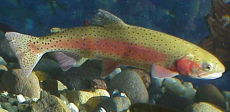 Downloaded from USGS website